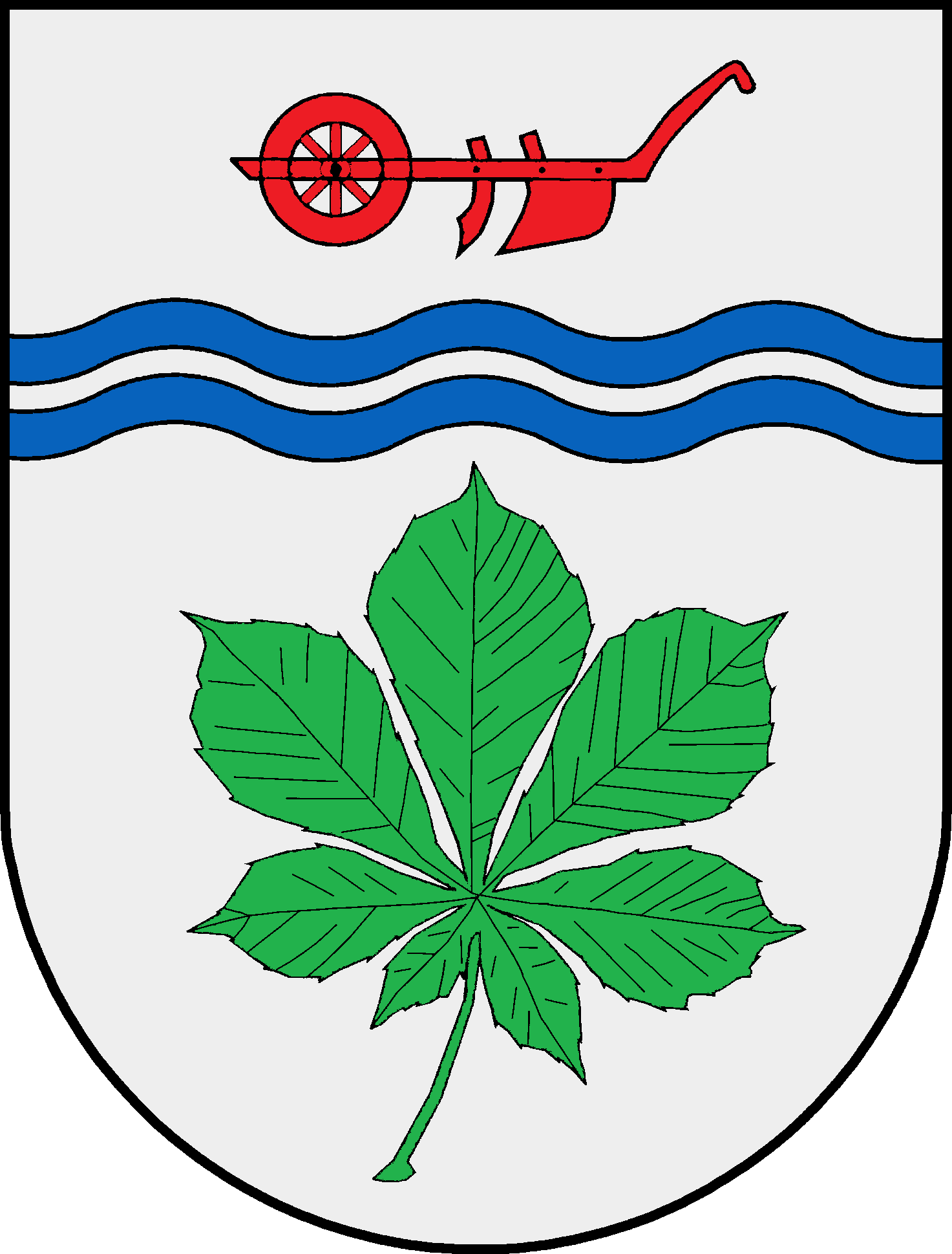 Coat of arms of the municipality Wakendorf I in Schleswig-Holstein, Germany.